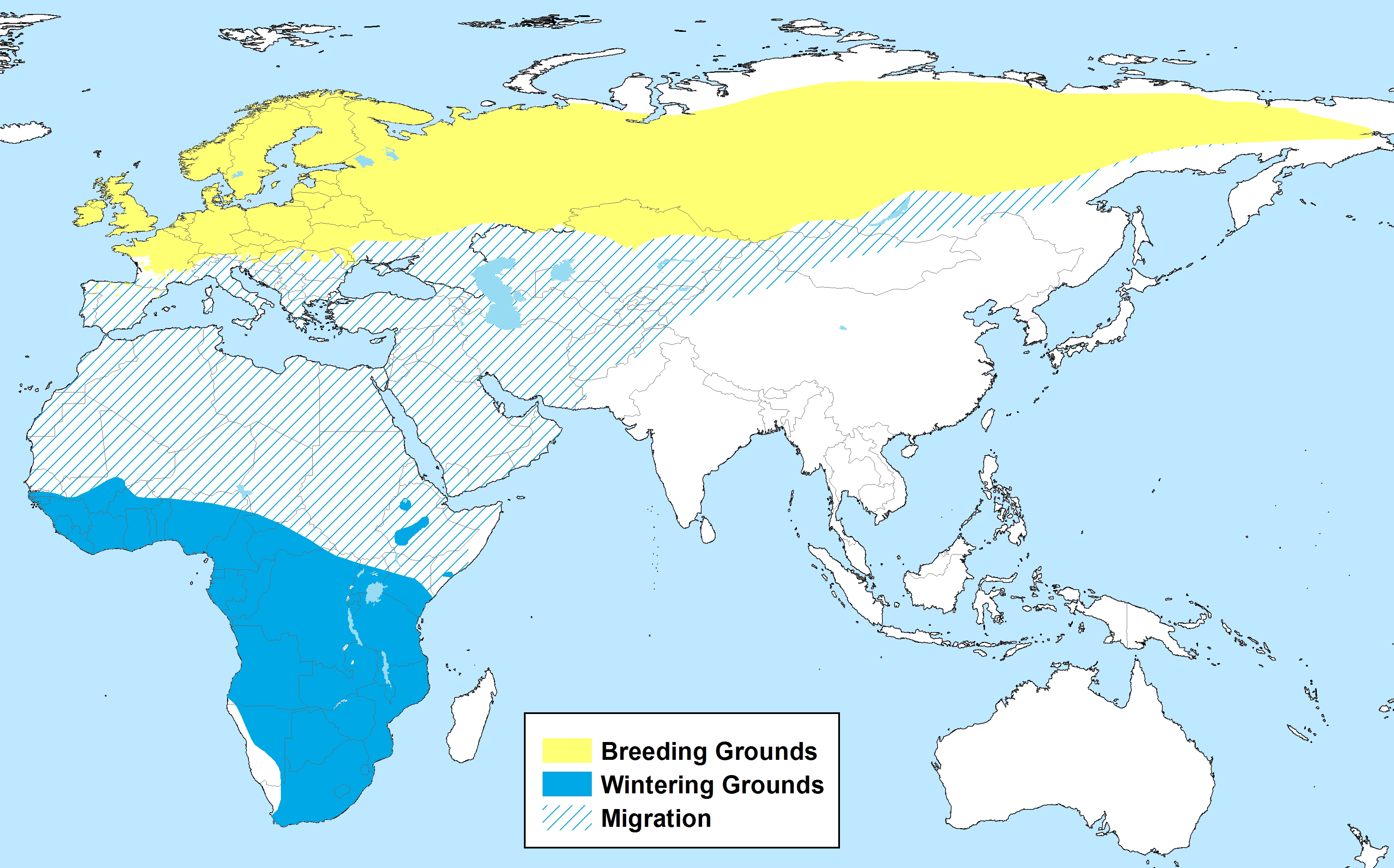 Yellow: breeding grounds Blue: wintering grounds Cross-hatched: migration range